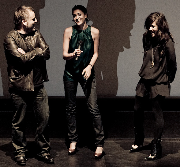 Pascal Laugier, Morjana Alaoui and Mylène Jampanoï at Ryerson Theatre for their movie Martyrs.